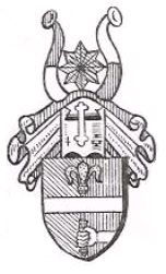 Willrich Wappen 1935